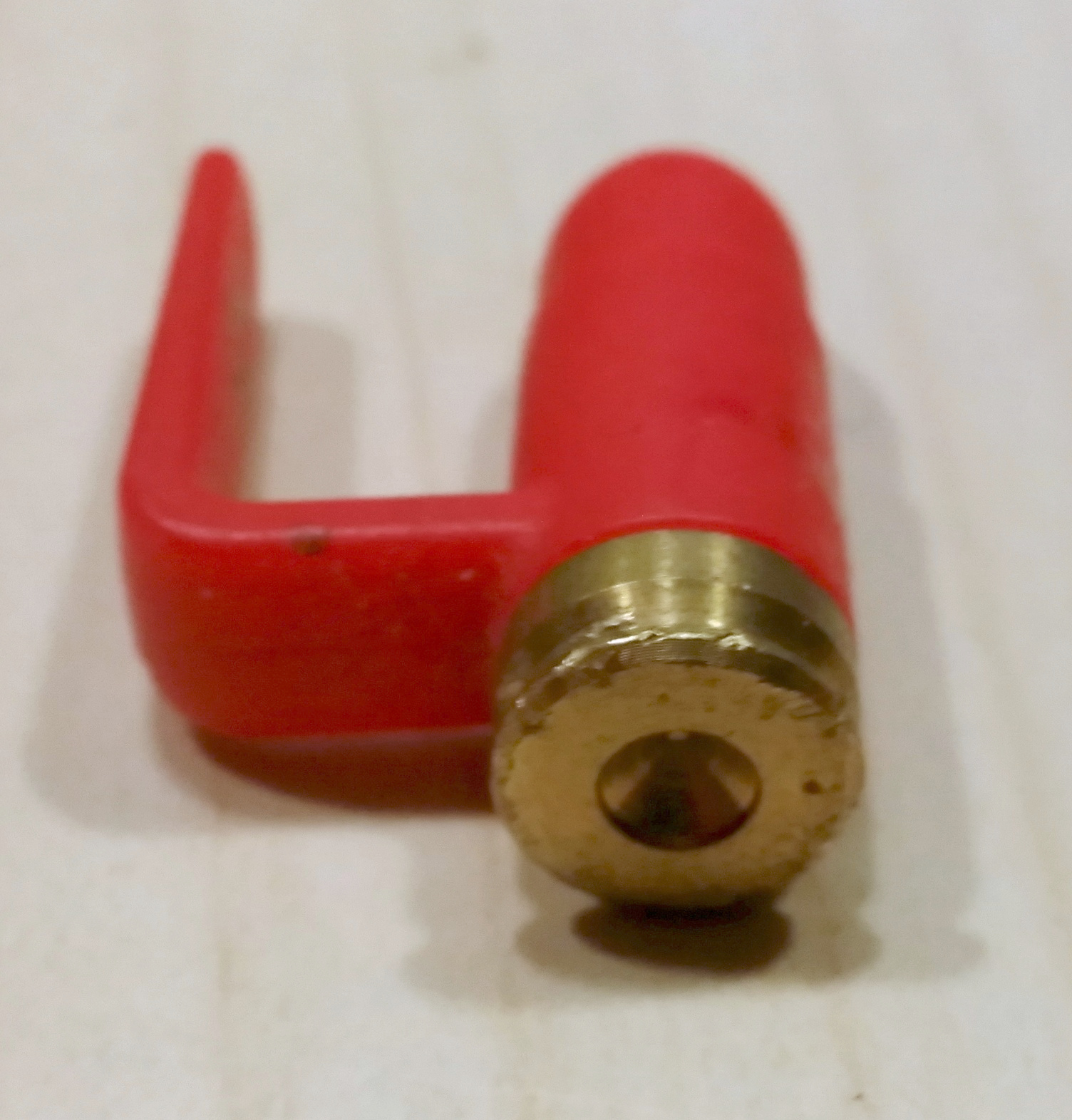 Comparable to a drill round it is inside the chamber to prevent unintended loading. It is visible from outside.